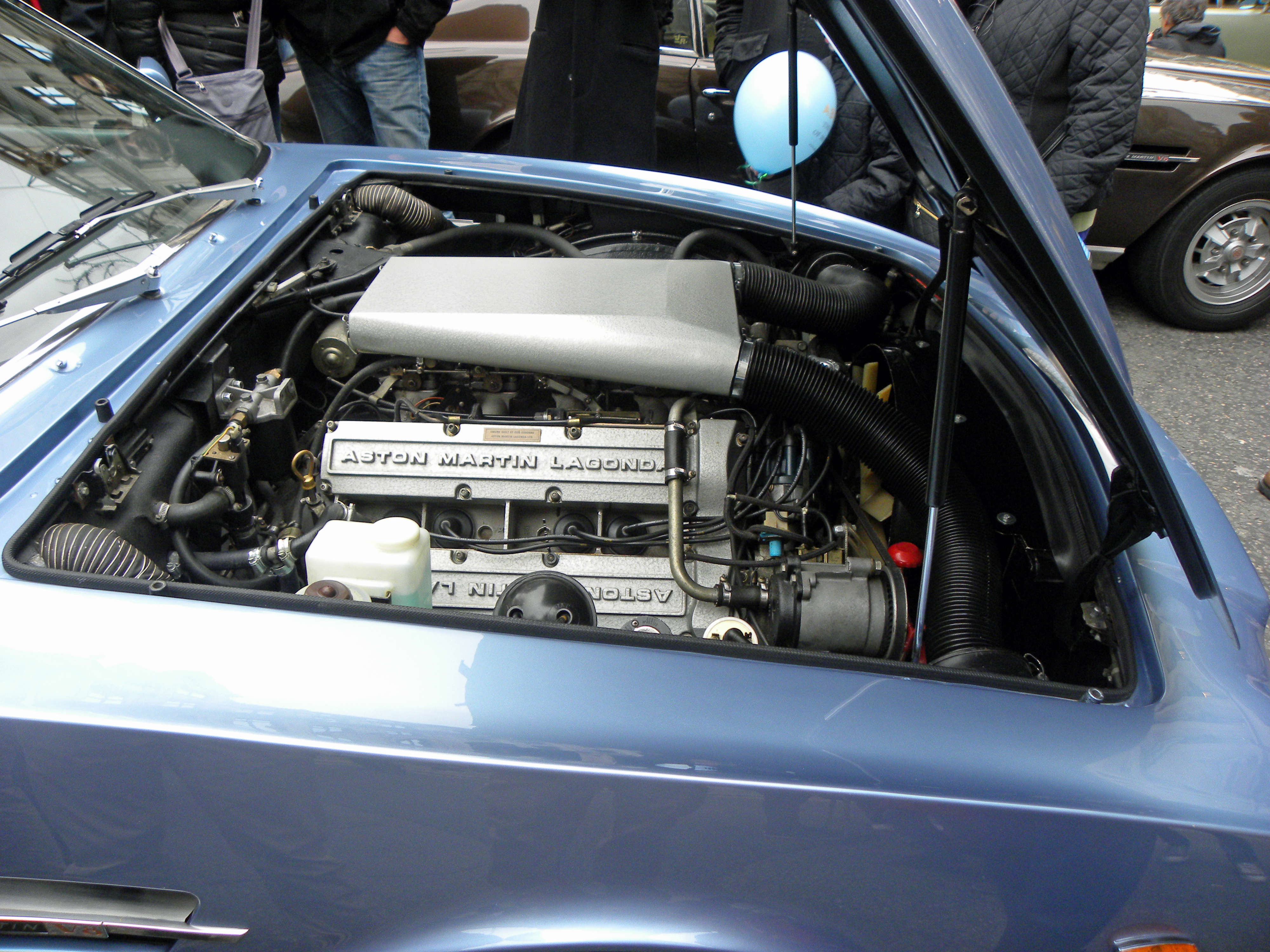 Aston Martin